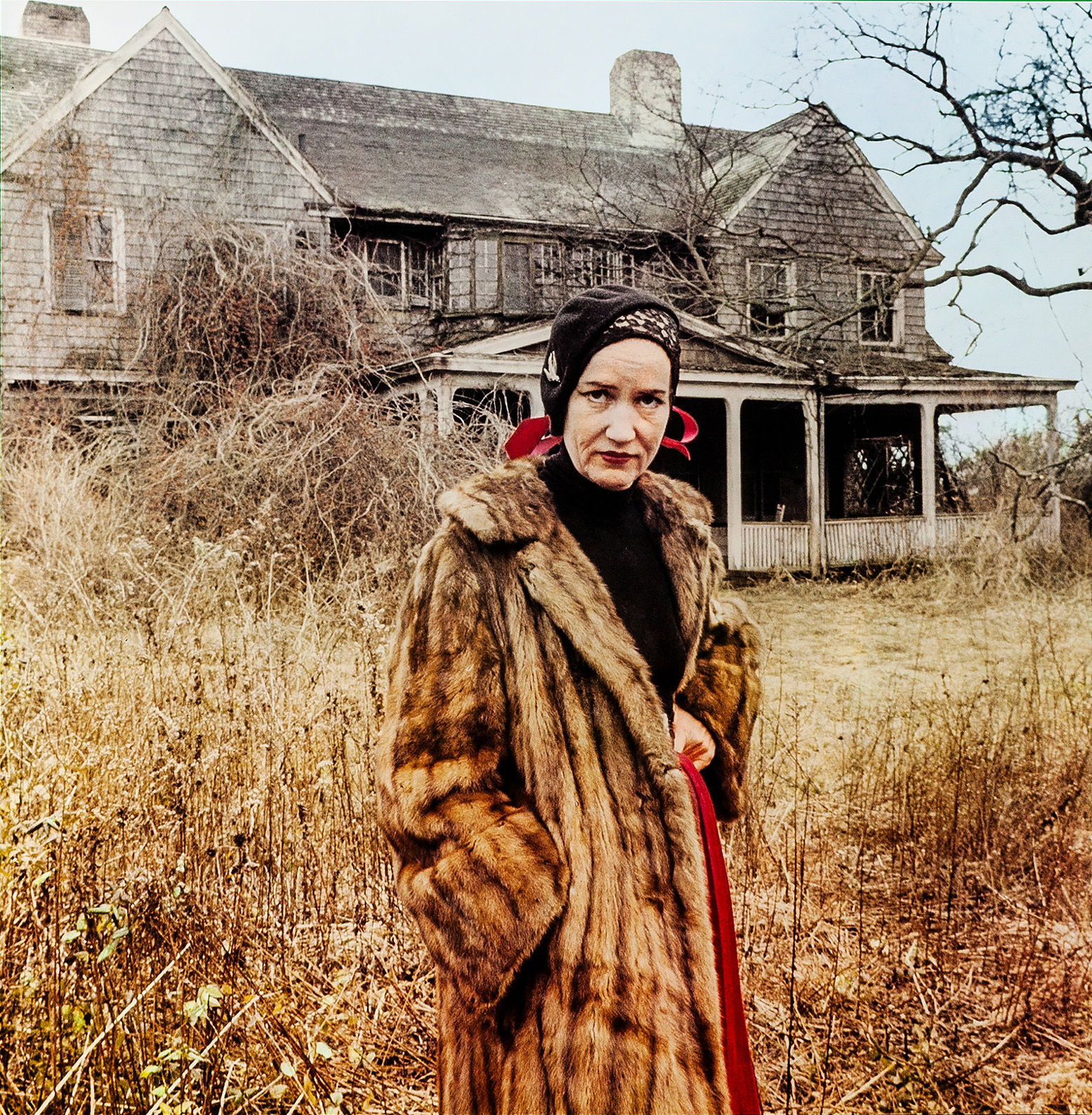 Portrait photograph of Edith "Little Edie" Bouvier Beale (1917–2002) outside the derelict Grey Gardens estate in the Village of East Hampton, New York, from the poster for the 1975 documentary film Grey Gardens.